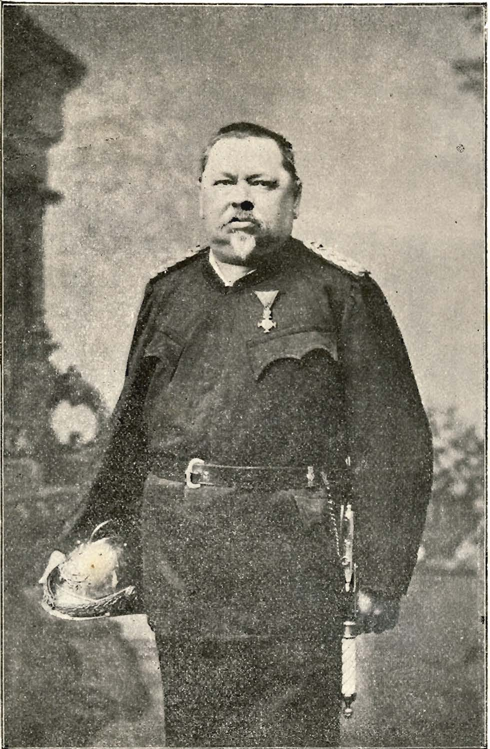 Ferdinand Jergitsch (1836-1900), founder of the auxiliary fire brigade in Carinthia´s capital Klagenfurt on the Lake Woerth, Carinthia, Austria